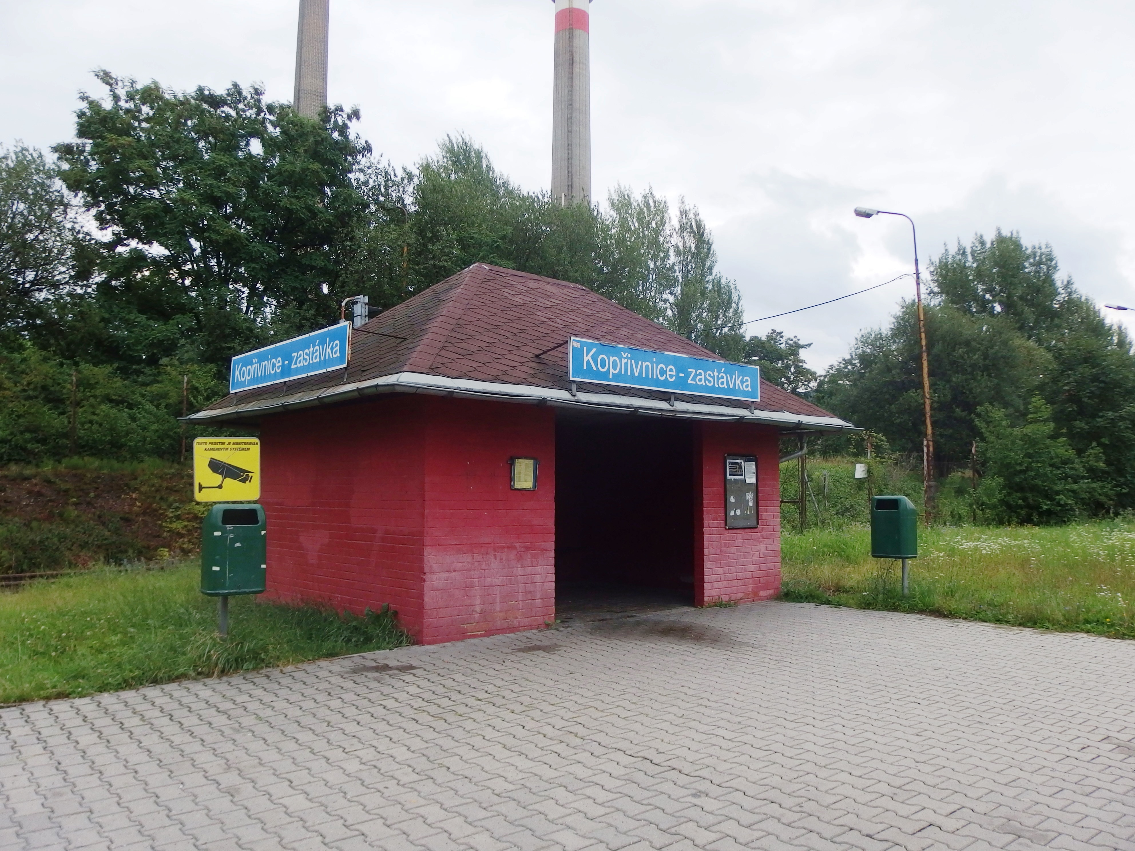 Kopřivnice, Nový Jičín District, Czech Republic. Train stop.